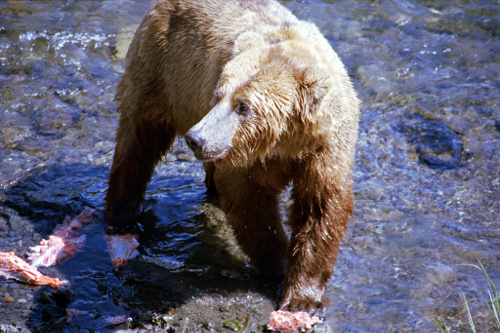 Katmai National Park and Preserve, Brooks Falls, Alaska, USA, brown bear and partly eaten salmon below the falls